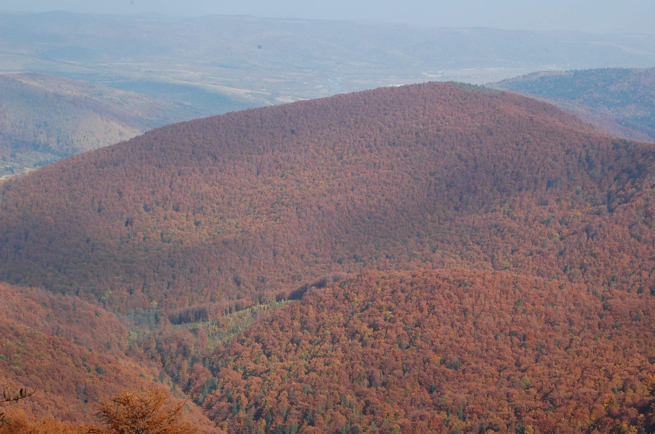 Carpathian mountains in western Ukraine.